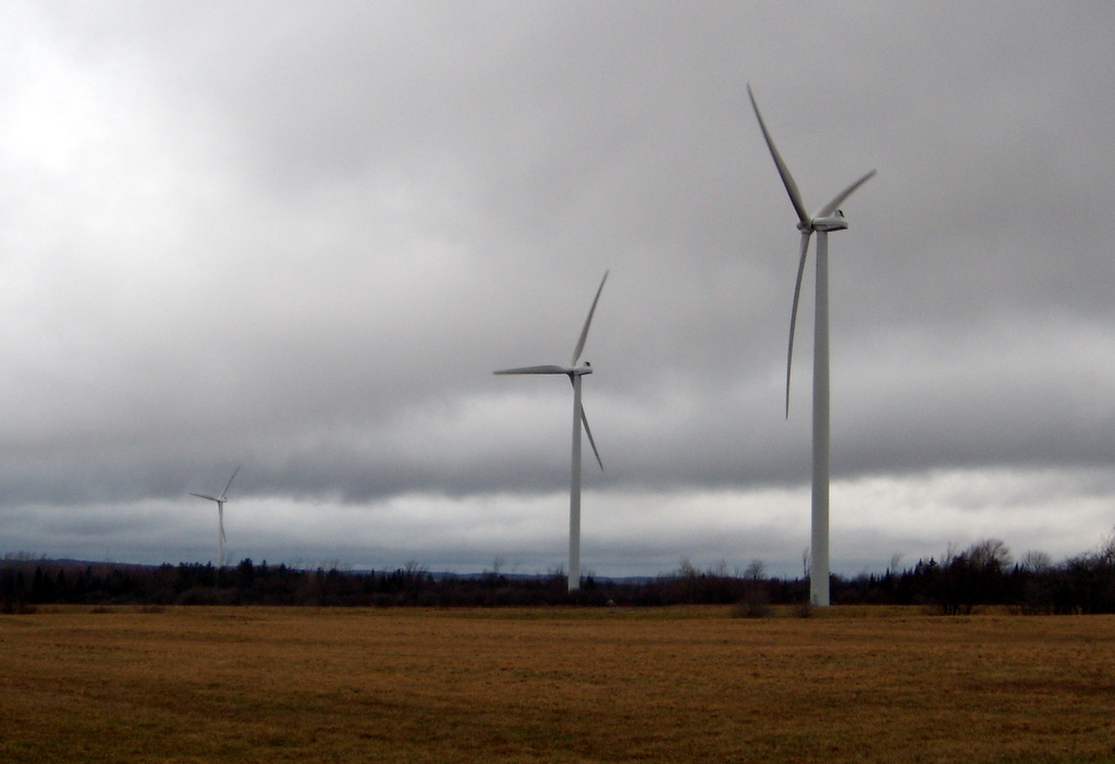 Author: Martin Klingensmith Source: Martin Klingensmith